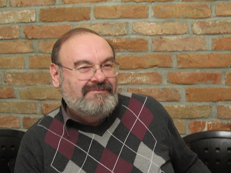 The Austrian author Gregor Riegler in November 2010.